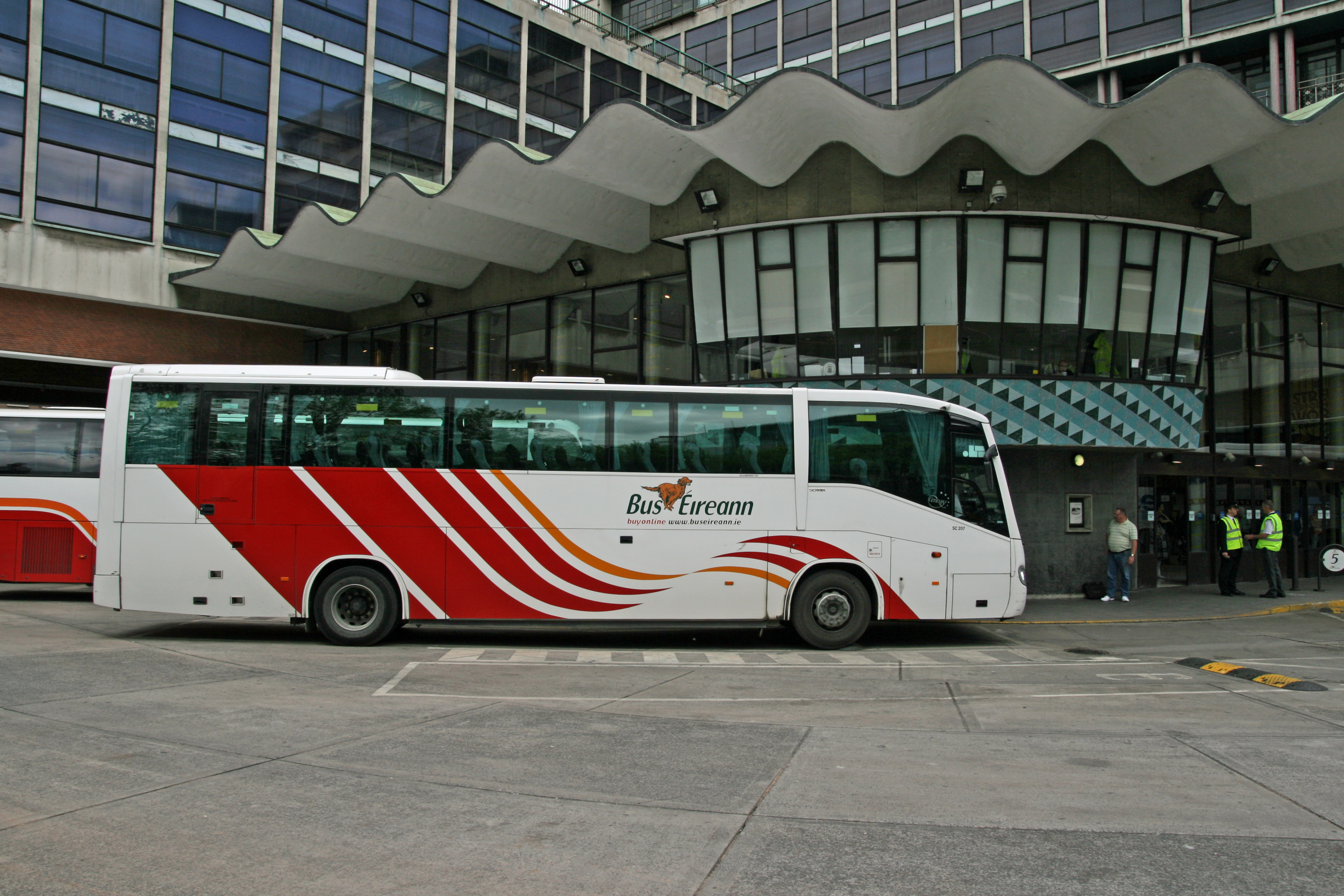 Busaras in Dublin